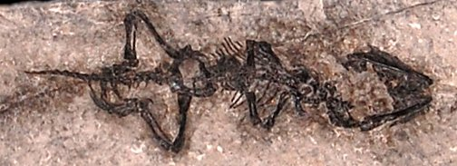 crop of file in file name